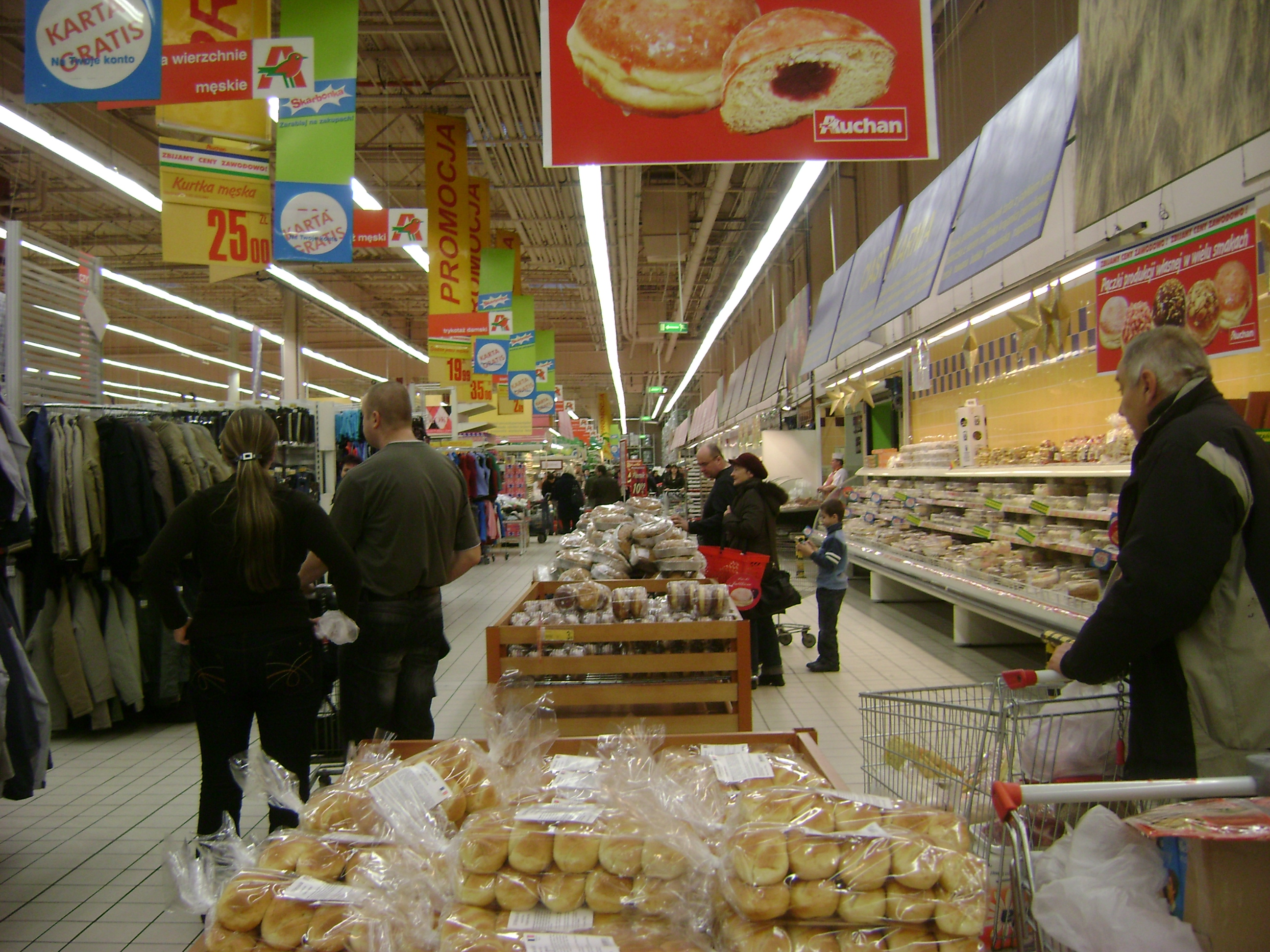 Poland. Piaseczno. Hipermarket "Auchan"